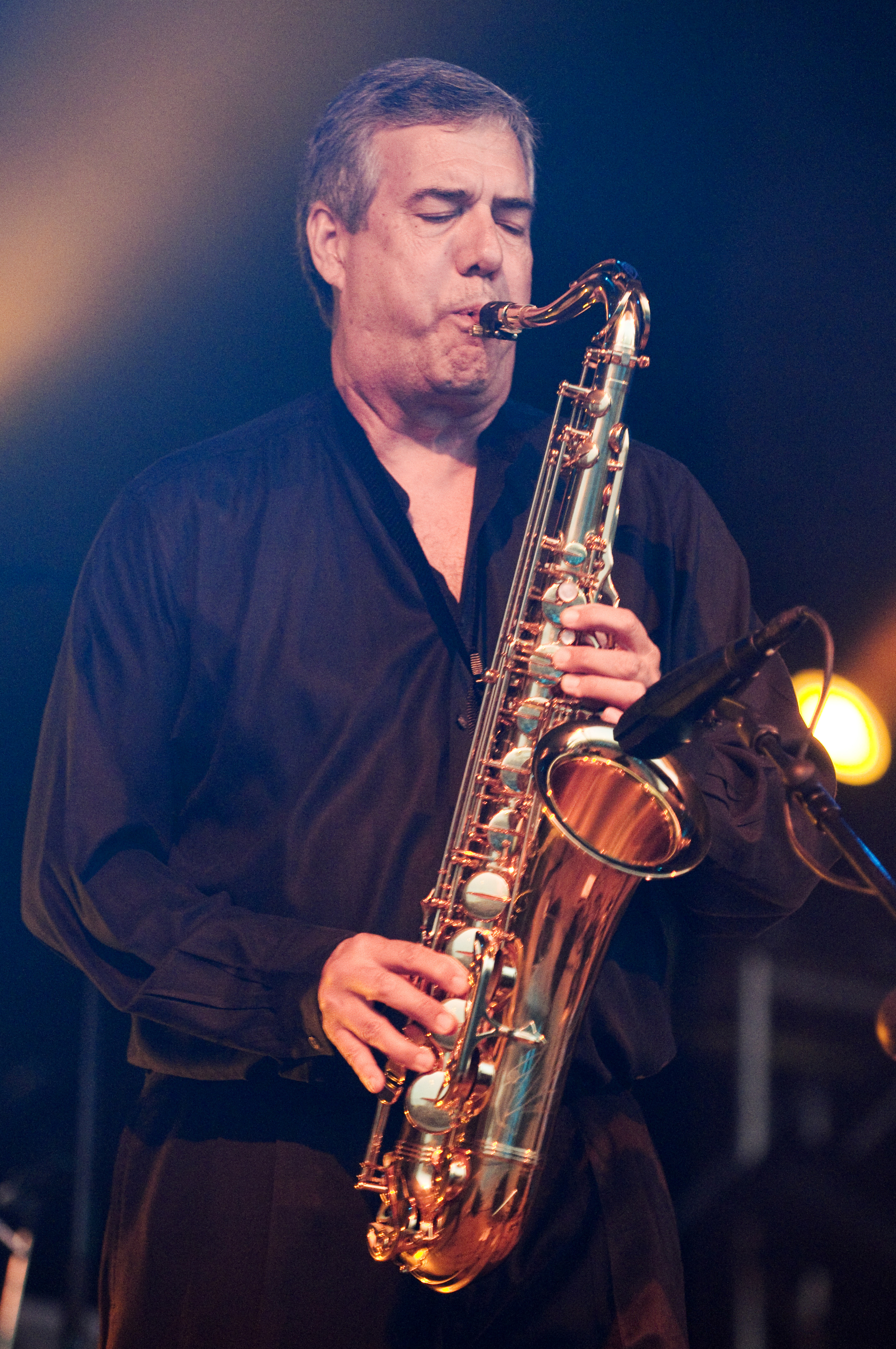 The Sonics